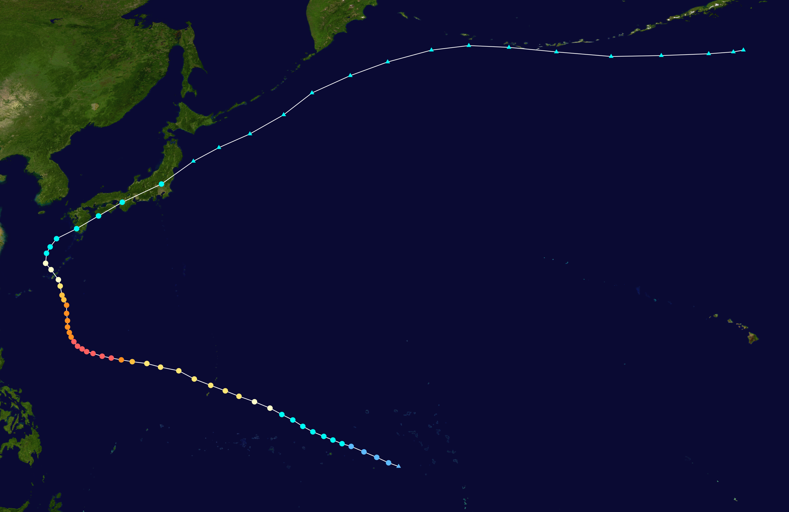 Track map of Typhoon Vongfong of the 2014 Pacific typhoon season. The points show the location of the storm at 6-hour intervals. The colour represents the storm's maximum sustained wind speeds as classified in the Saffir–Simpson scale (see below), and the shape of the data points represent the nature of the storm, according to the legend below. Saffir–Simpson scale Tropical depression≤38 mph≤62 km/h Category 3111–129 mph178–208 km/h Tropical storm39–73 mph63–118 km/h Category 4130–156 mph209–251 km/h Category 174–95 mph119–153 km/h Category 5≥157 mph≥252 km/h Category 296–110 mph154–177 km/h Unknown Storm type Tropical cyclone Subtropical cyclone Extratropical cyclone / Remnant low / Tropical disturbance / Monsoon depression